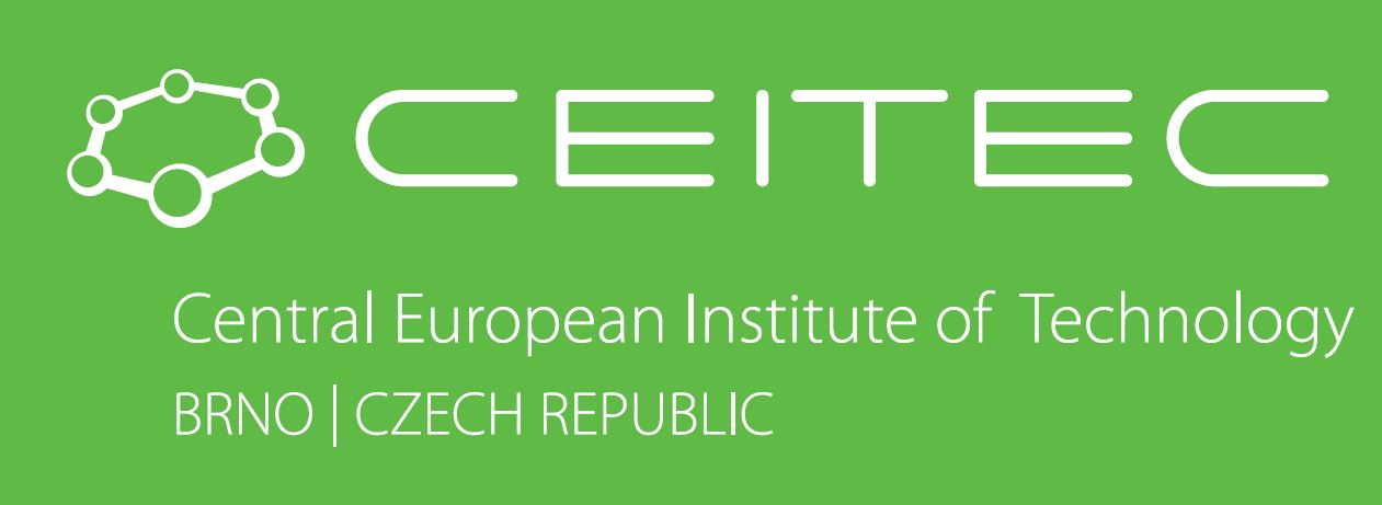 CEITEC logo